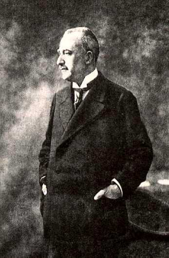 Archduke Leopold Ferdinando of Austria-Tuscany.